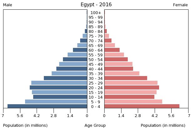 The population pyramid of Egypt illustrates the age and sex structure of population and may provide insights about political and social stability, as well as economic development. The population is distributed along the horizontal axis, with males shown on the left and females on the right. The male and female populations are broken down into 5-year age groups represented as horizontal bars along the vertical axis, with the youngest age groups at the bottom and the oldest at the top. The shape of the population pyramid gradually evolves over time based on fertility, mortality, and international migration trends.